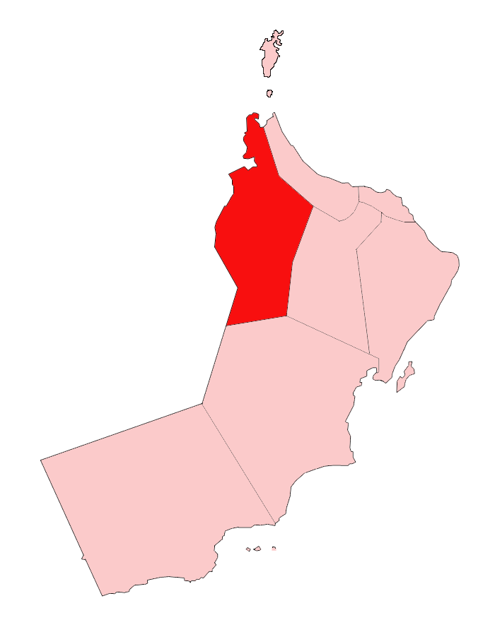 Map of Oman showing Az Zahirah (Ad Dhahirah) region